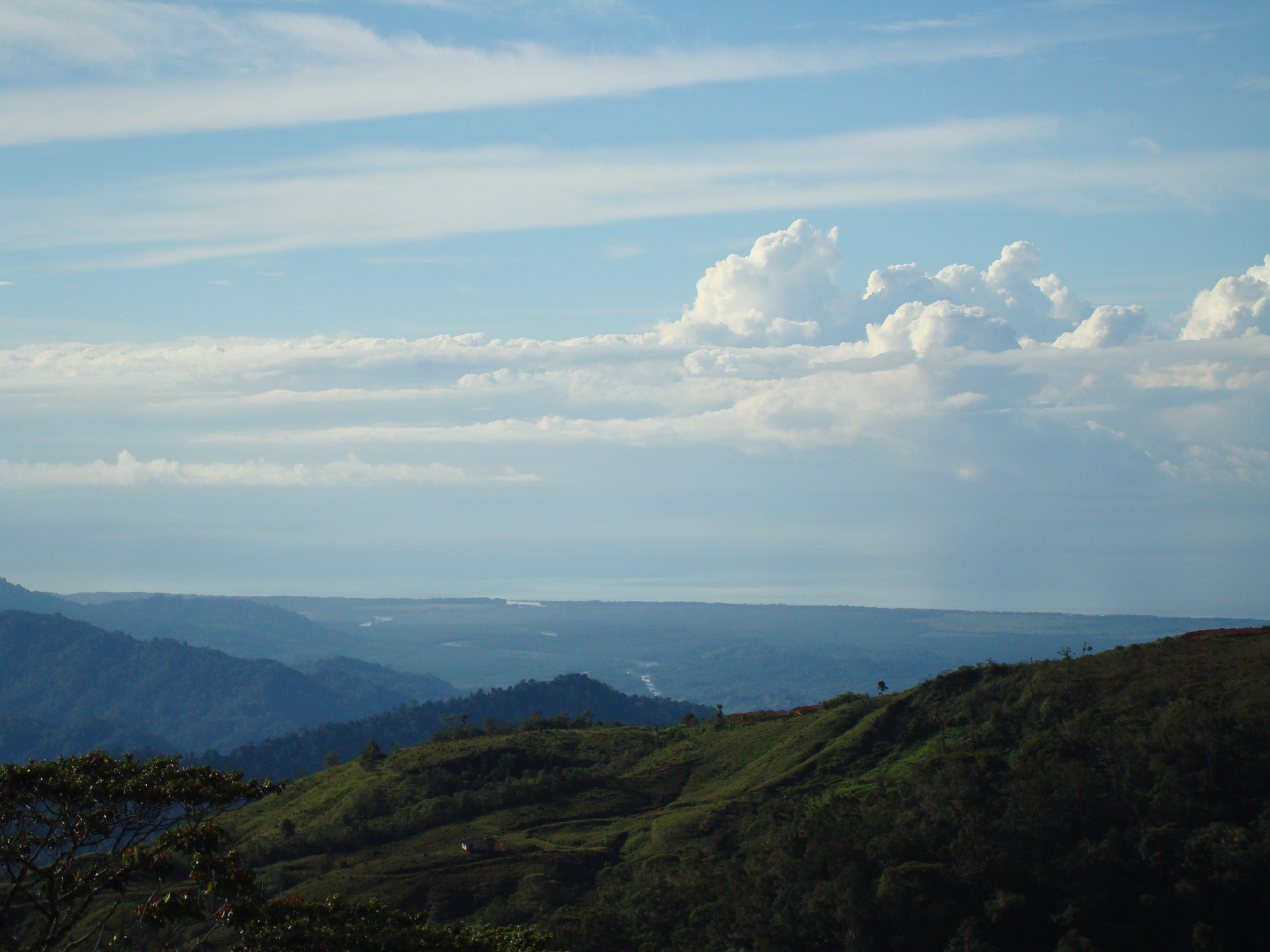 Jorge Umana